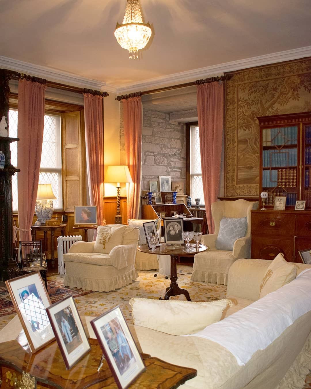 Sitting room at Glamis Castle, Queen's mum childhood family room.